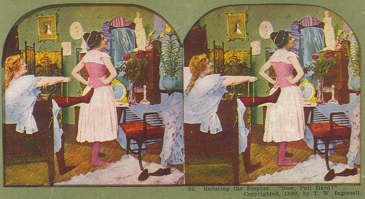 Woman in corset. Original title: Reducing the Surplus. "Now, Pull Hard!" Scanned from stereoscope card, copyrighted 1899 by T. W. Ingersoll. USA copyright expired. Other copyrights, if any, unknown. Original caption: REDUCING THE SURPLUS. "NOW PULL HARD!" A small waist between a full bust and ample hips, such is the shibboleth of fashion, and the poor girl that relies on her figure to make a good impression, is sorely put to it, if nature has denied her the shape of a wasp or if she has not learned to rely on physical exercise to model her frame. A vigorous walk of ten miles a day, supplemented by ten minutes of lung gymnastics, would do wonders for her.